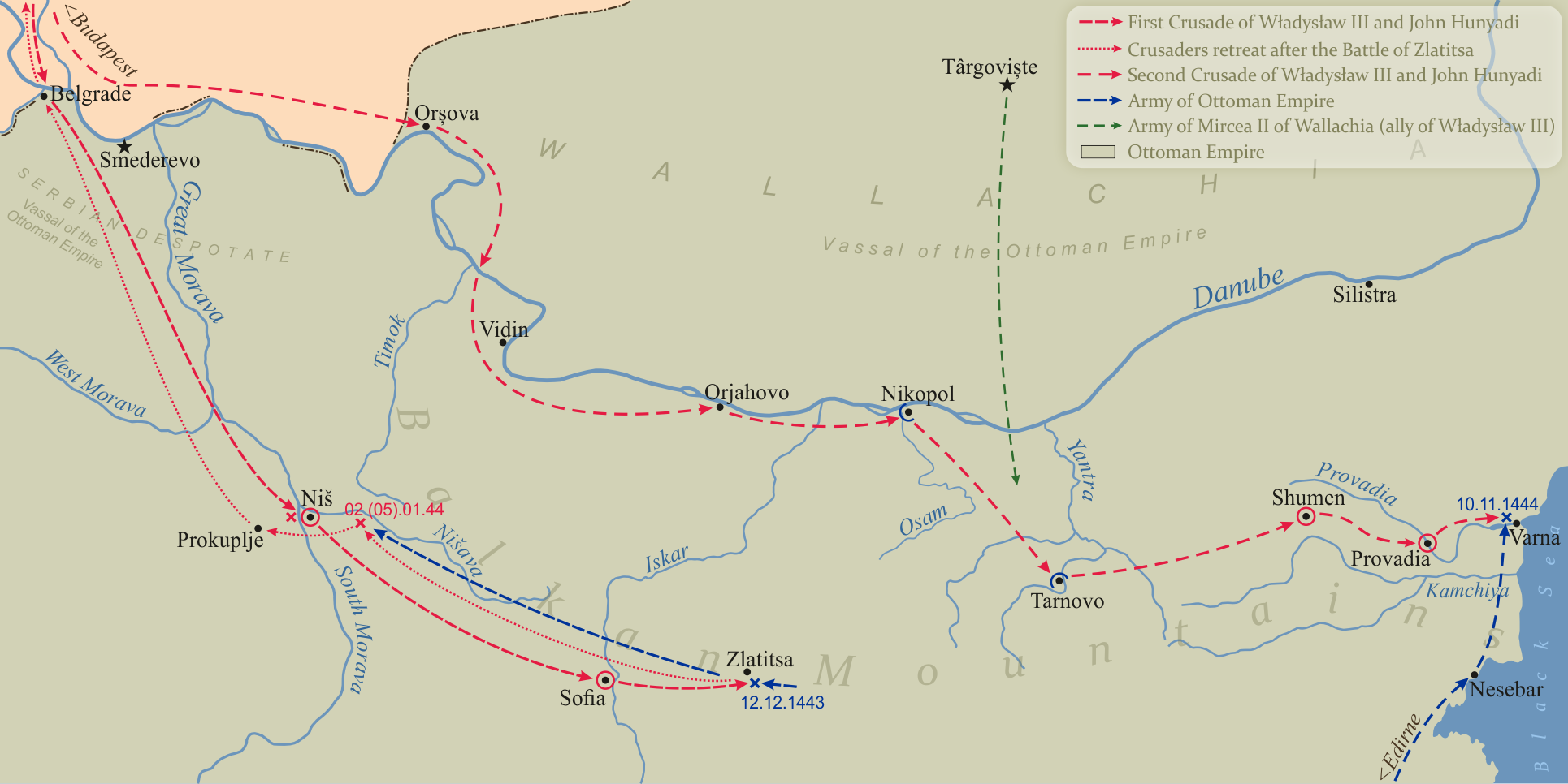 Map of the crusades of Vladislav III Varnenchik and Janos Hunyadi against the Ottoman Empire (October 1443-November 1444)